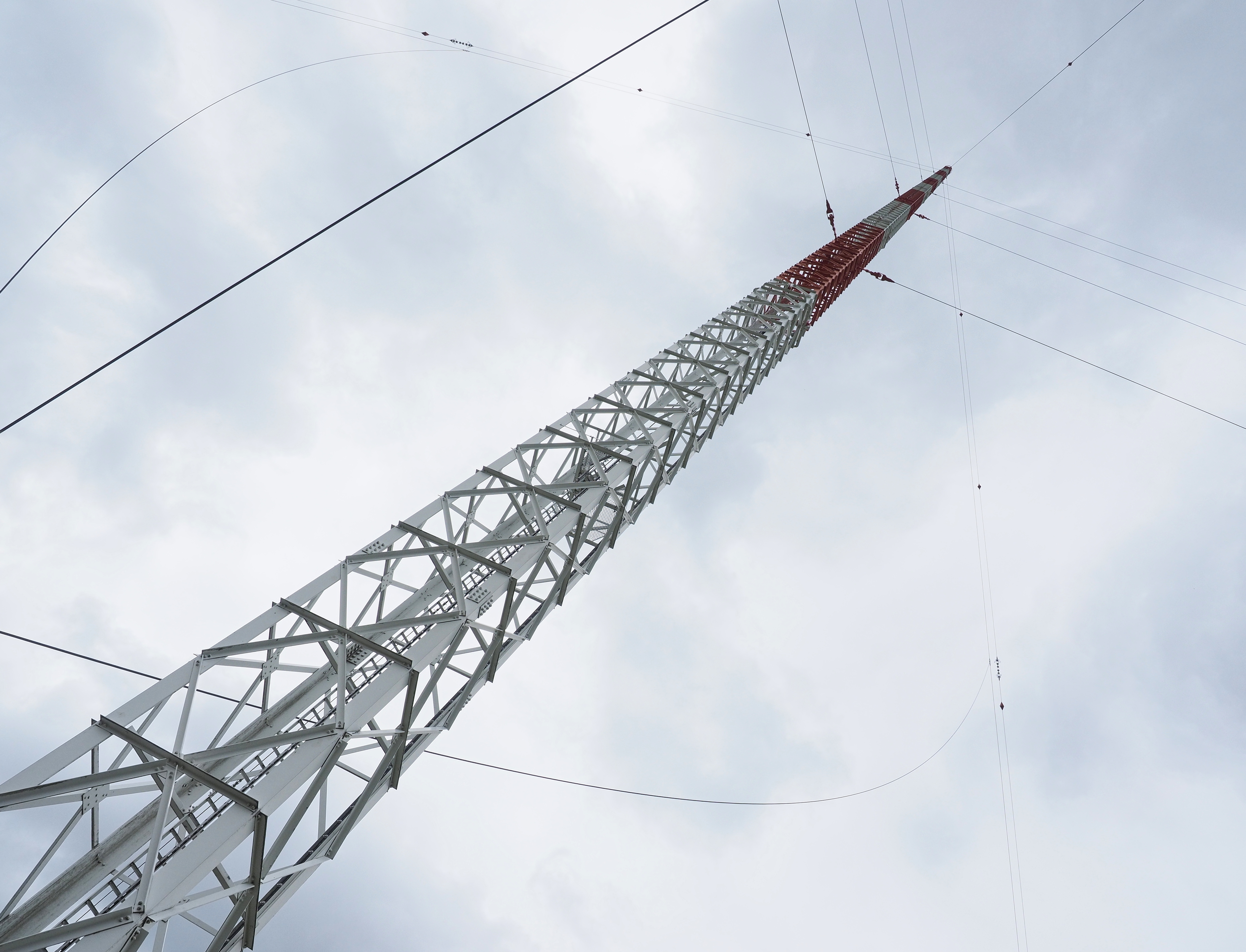 Former Donebach transmitter station, Germany, one of the two 1191-ft-tall masts, which used to be Germany’s tallest structures. The three wires from the left powered the antenna. The station transmitted the program of Deutschlandfunk on 153 kHz longwave.